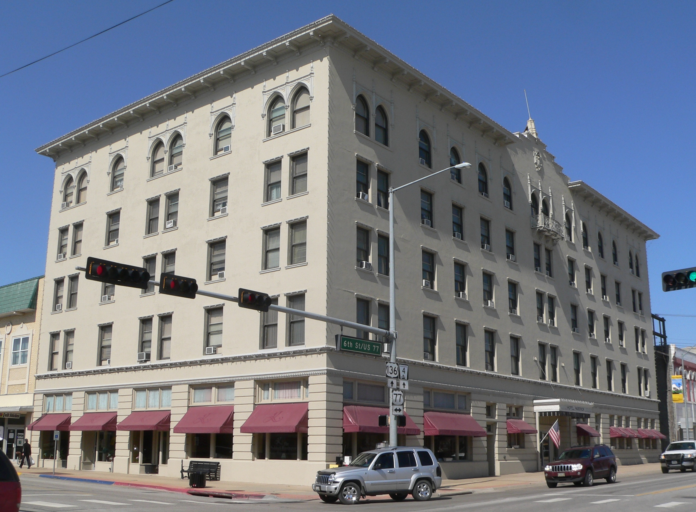 Paddock Hotel, located at 105 N. 6th Street in Beatrice, Nebraska; seen from the southeast, across corner of 6th and Court.